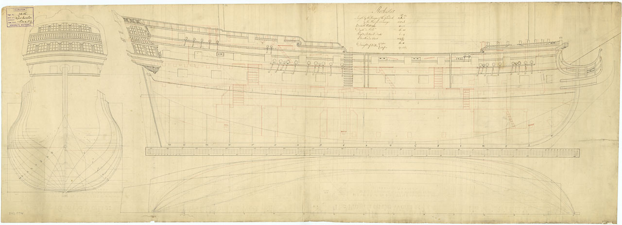 Rochester (1749) Scale: 1:48. Plan showing the body plans, stern board outline, sheer lines with inboard detail, and longitudinal half-breadth for Rochester (1749), a modified 1741 Establishment 50-gun Fourth Rate, two-decker. ROCHESTER 1749